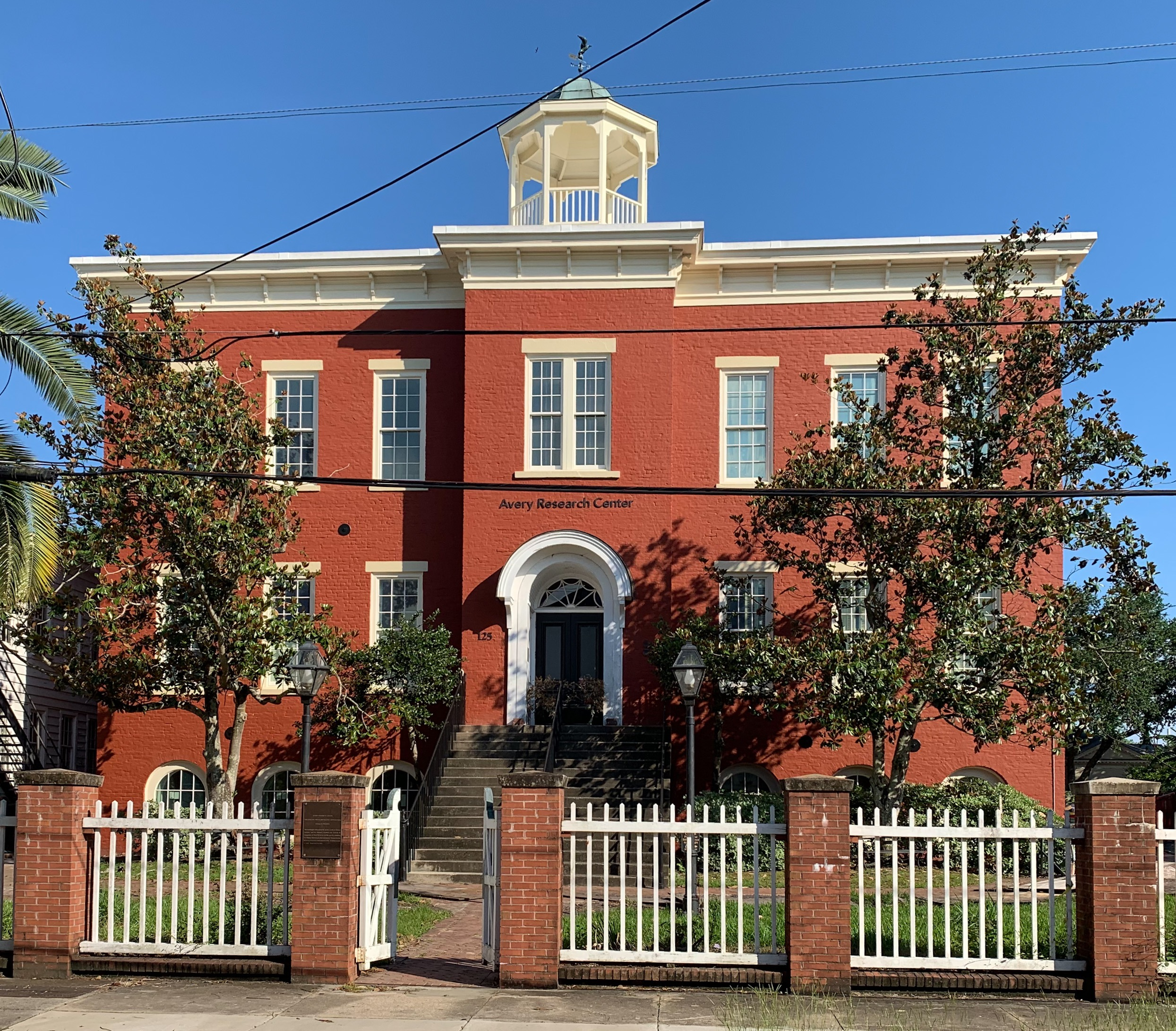 Avery Center, 125 Bull Street, Charleston, South Carolina